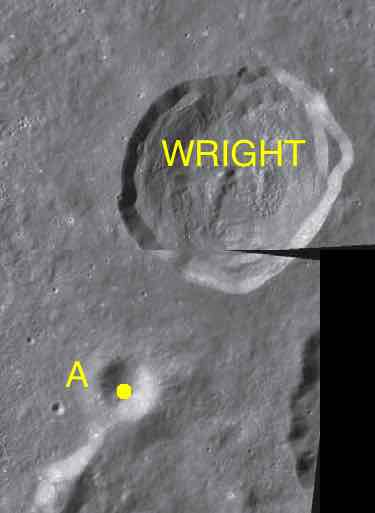 Parts of the charts LAC-91, LAC-123 used for the presentation